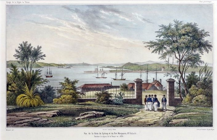 View from the western side of Sydney Cove (Circular Quay) looking to Bennelong Point and Fort Macquarie - 240mm × 400mm - Hand-coloured lithograph